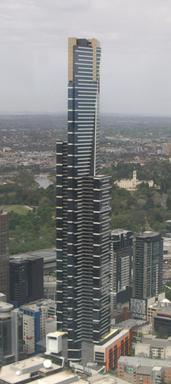 A view of Eureka Tower, Melbourne from the Rialto Towers.